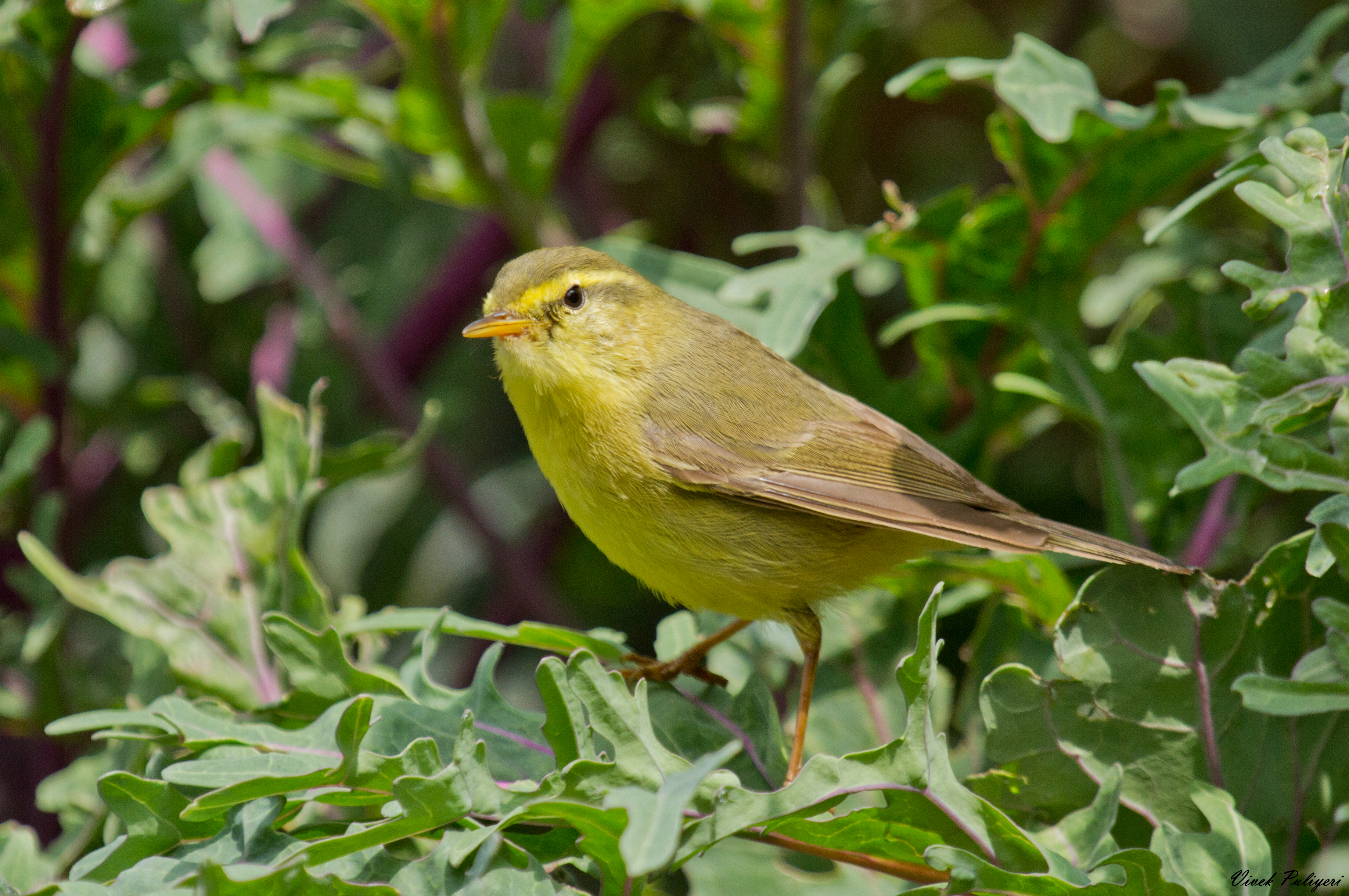 Species: Tickell's Leaf Warbler (Phylloscopus affinis) Location: Botanical Garden, Ooty, Tamilnadu, India